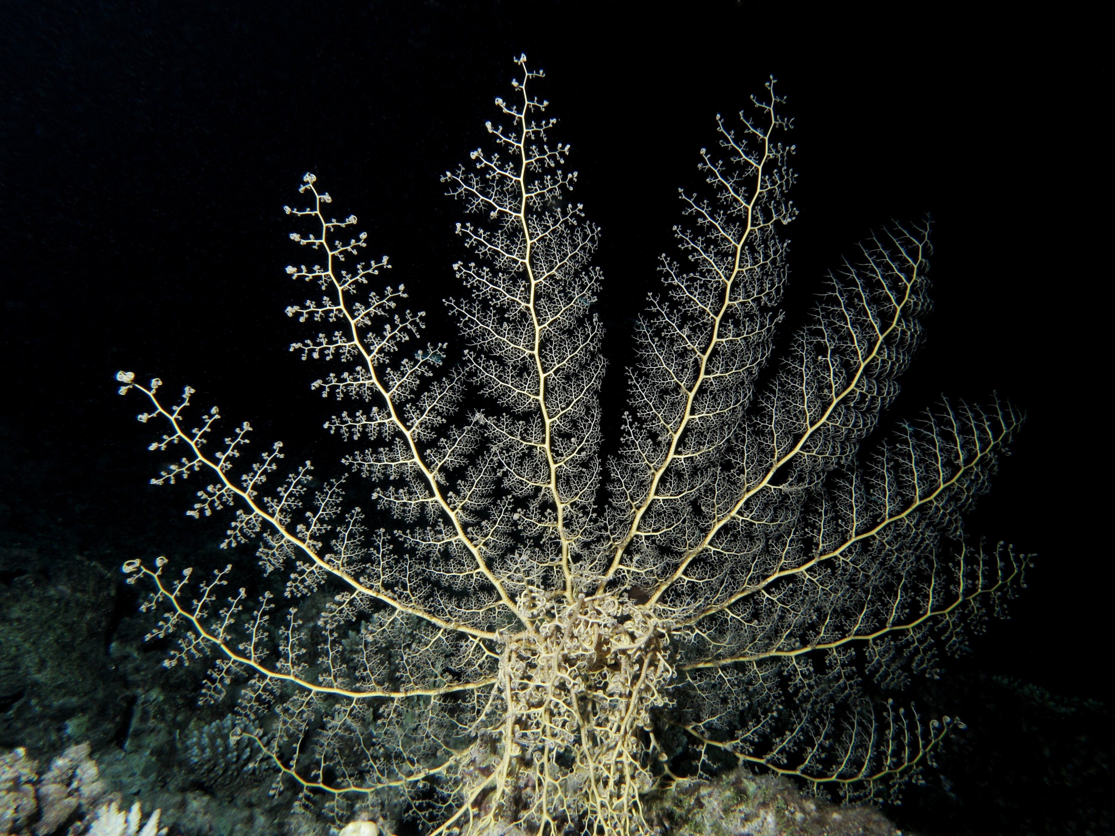 Basket star (Astroboa nuda) feeding at night at the Red Sea